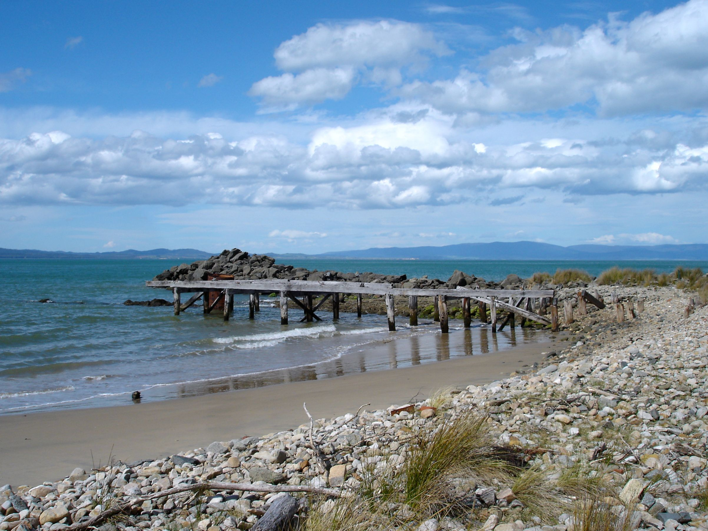 I took this photo a few yesterday at Port Craig.